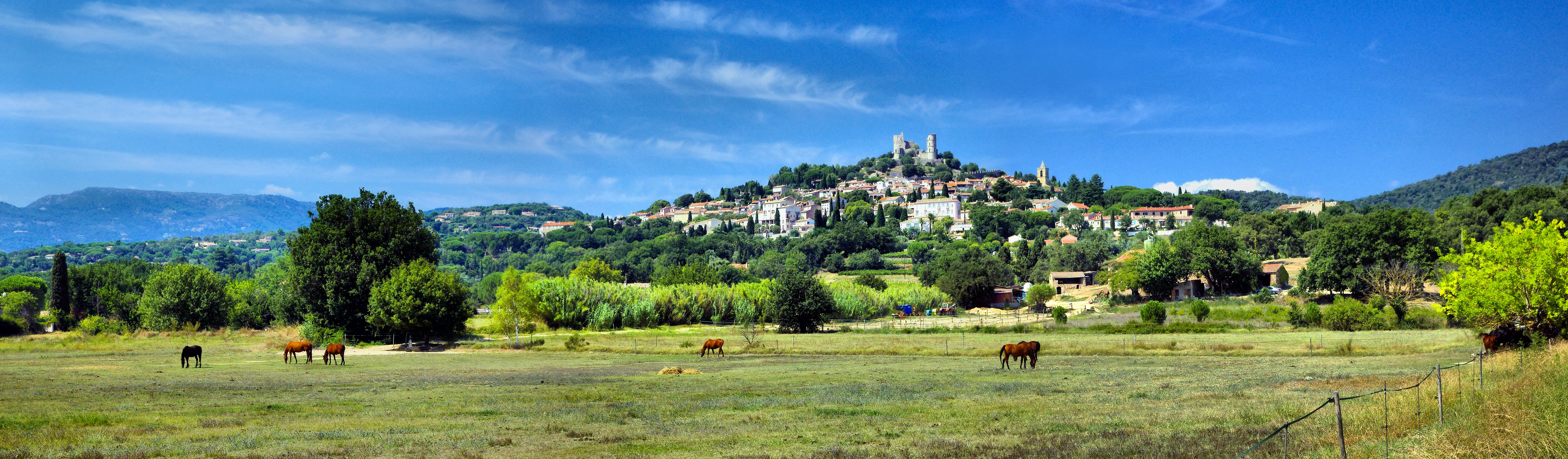 Grimaud